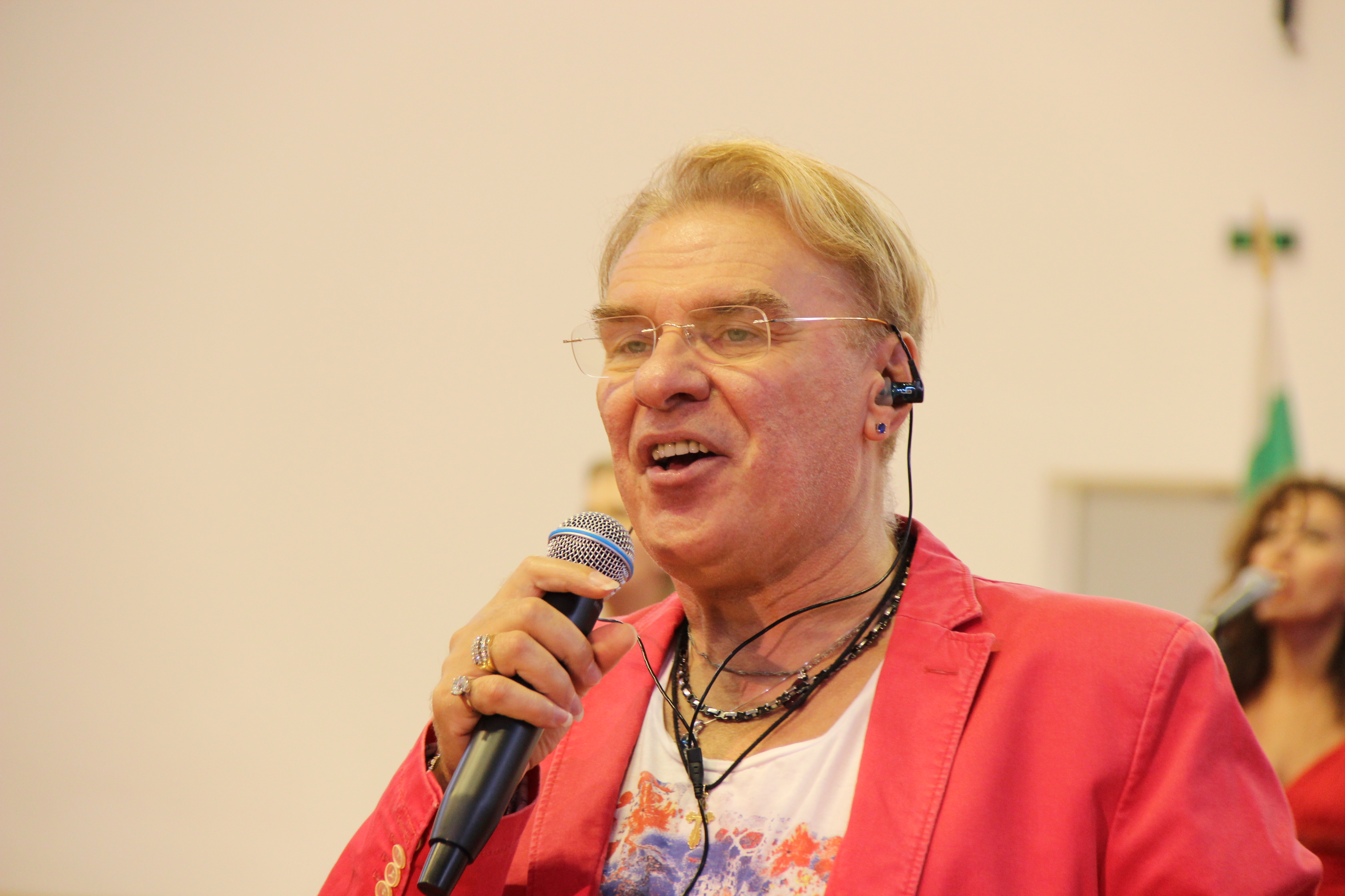 Vassil Naydenov (Cyrillic: Васил Найденов) is a Bulgarian singer-songwriter, who was popular in his native country as well within the Eastern bloc during the late 1970s and 1980s.